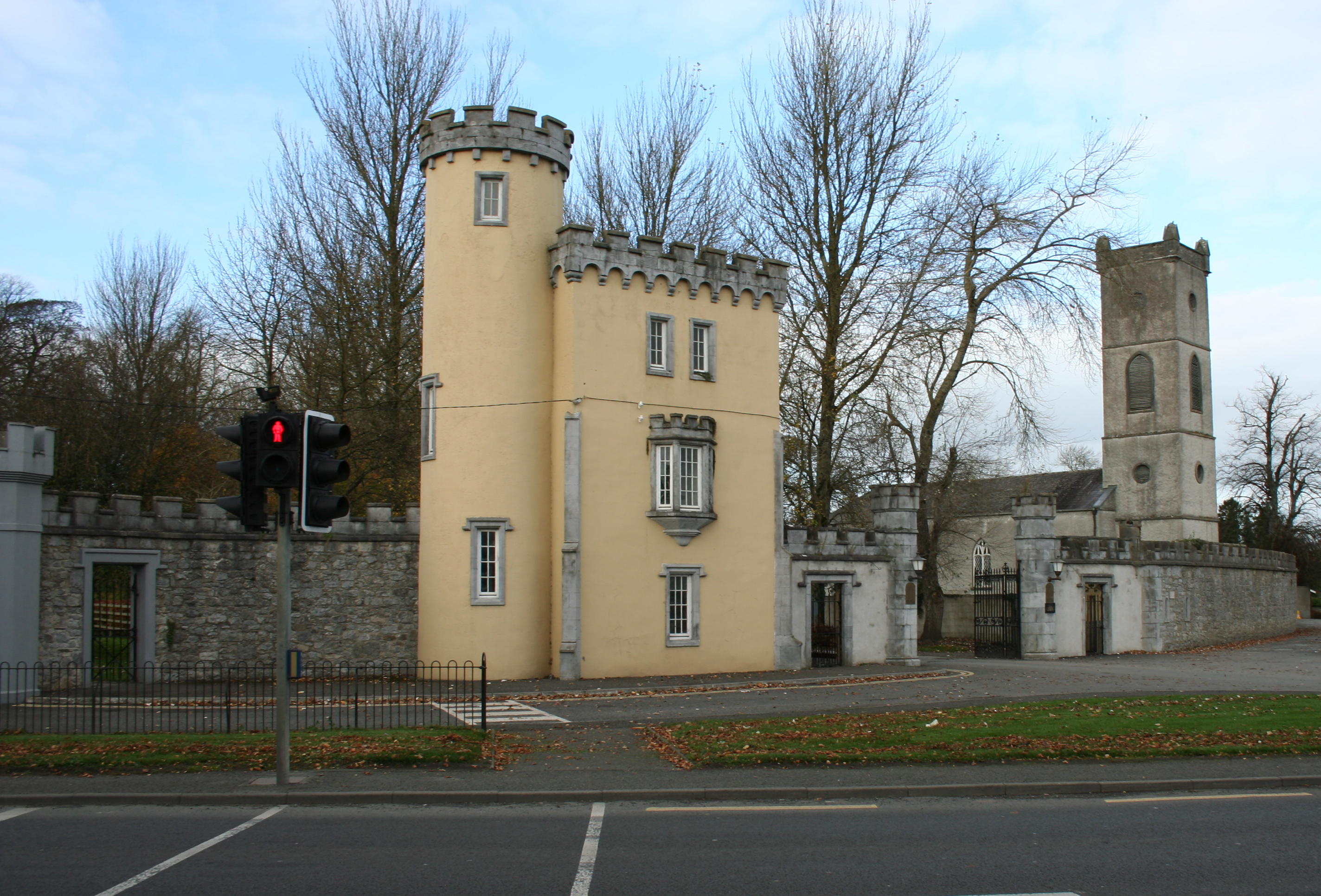 View of Durrow, County Laois